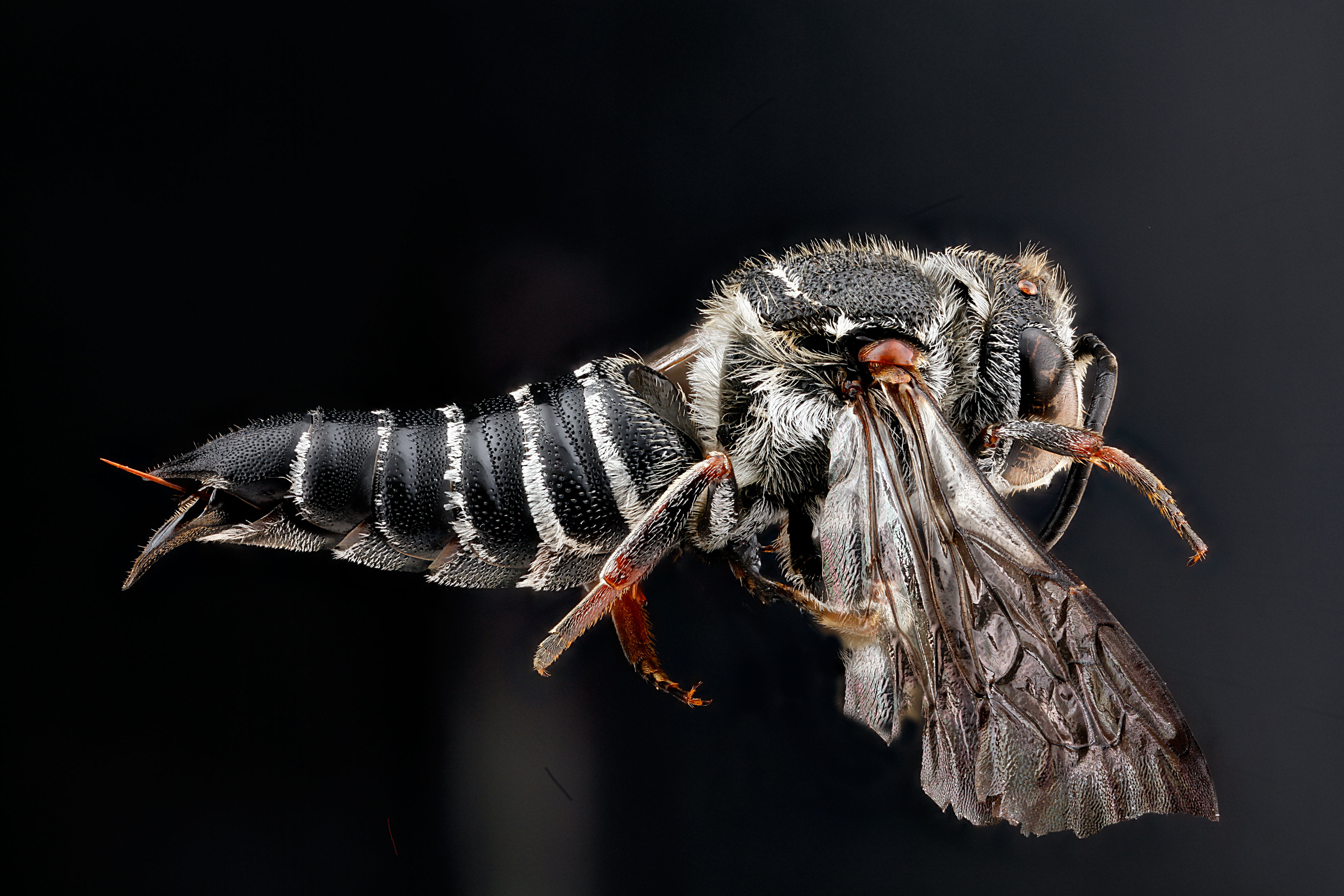 Coelioxys sayi, female, Patuxent Wildlife Research Center, Odenton, Maryland